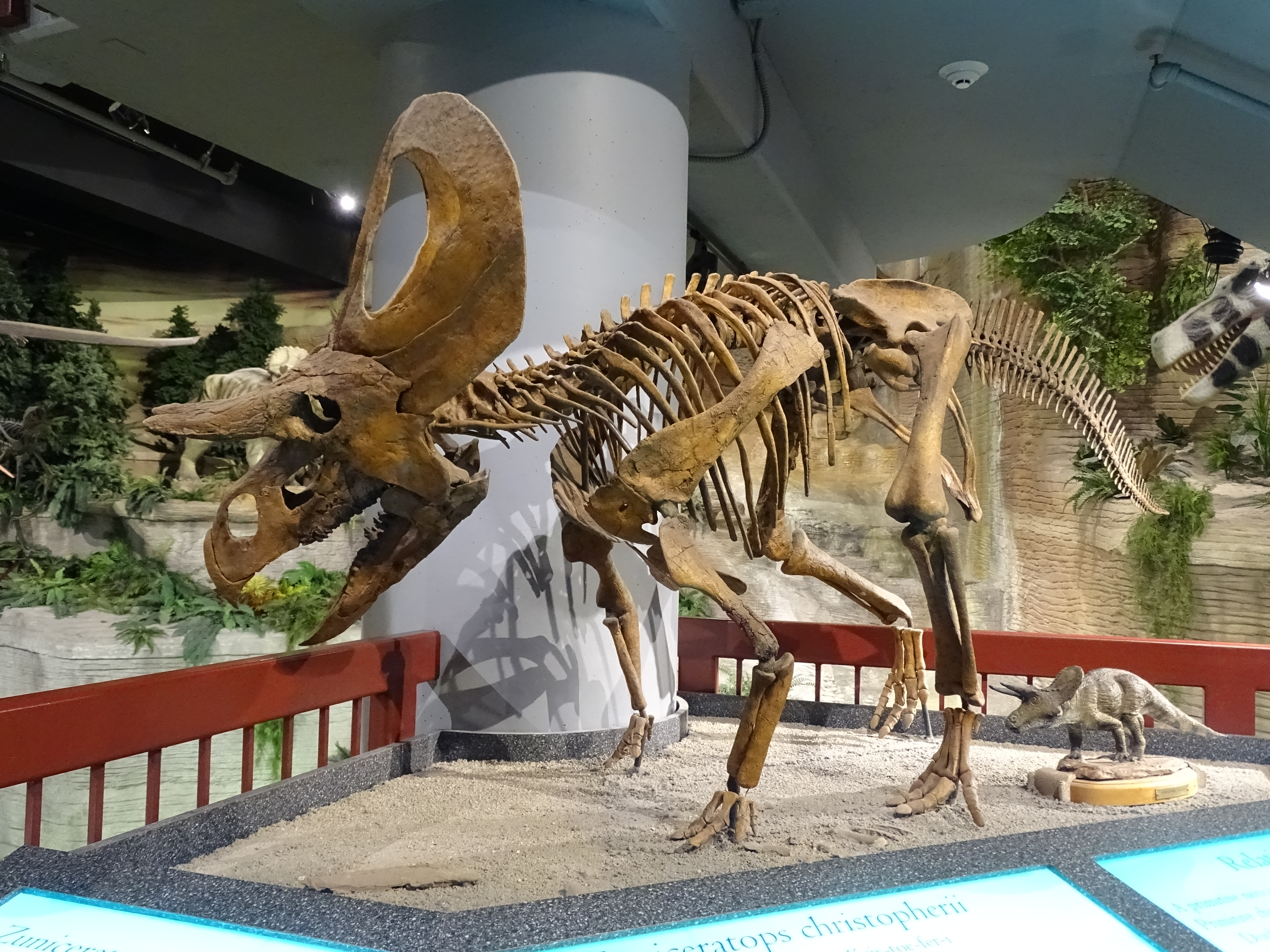 Zuniceratops skeleton in the Arizona Museum of Natural History